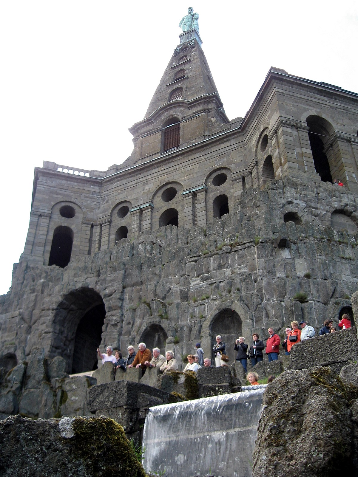 Germany / Cassel / Hesse: Memorial Herkules